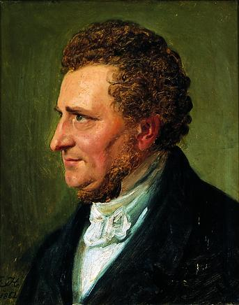 Portrait of Danish politician Orla Lehmann by painter Constantin Haesen